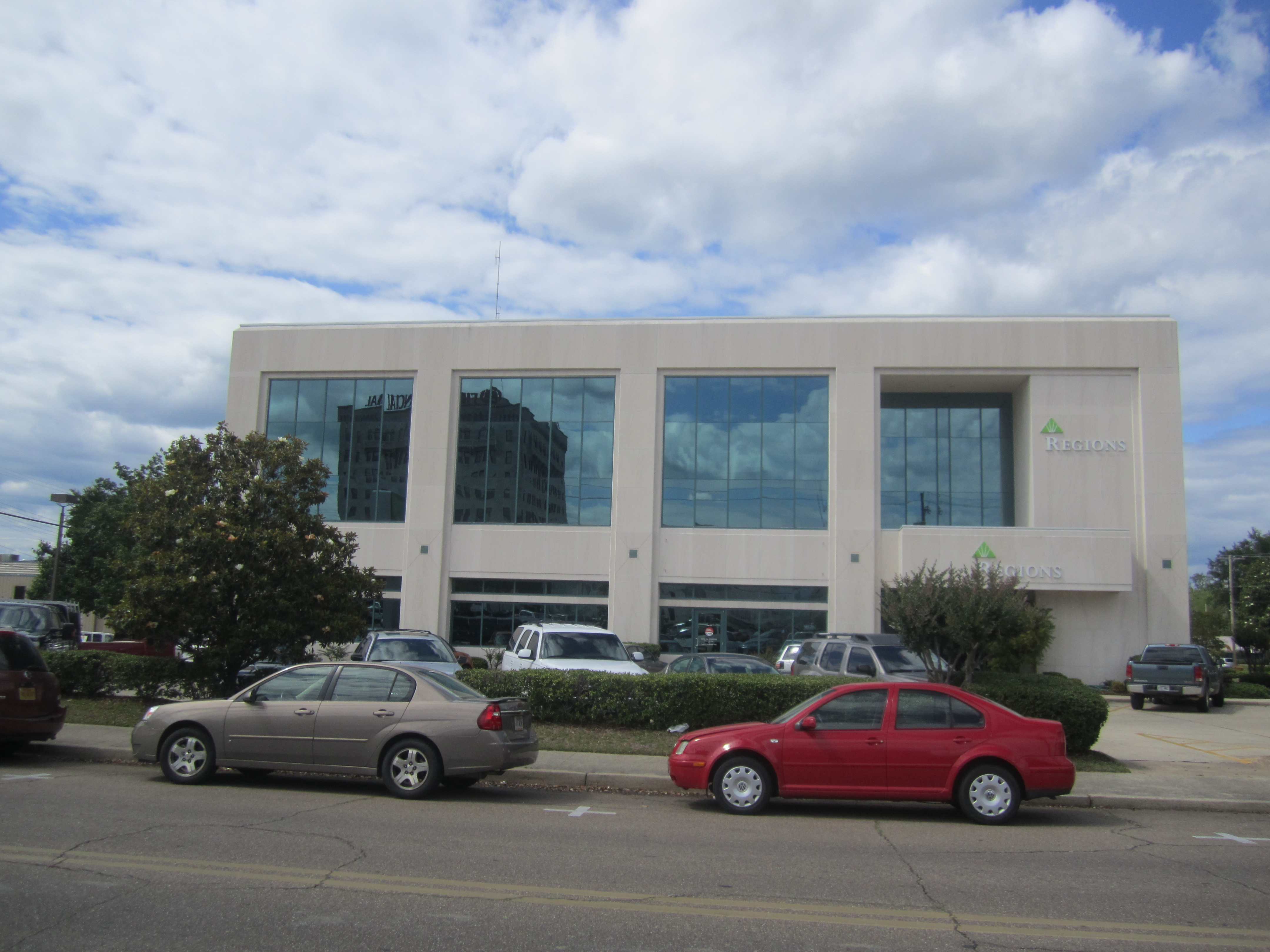 I took photo of Regions Bank in El Dorado, AR, with Canon camera.